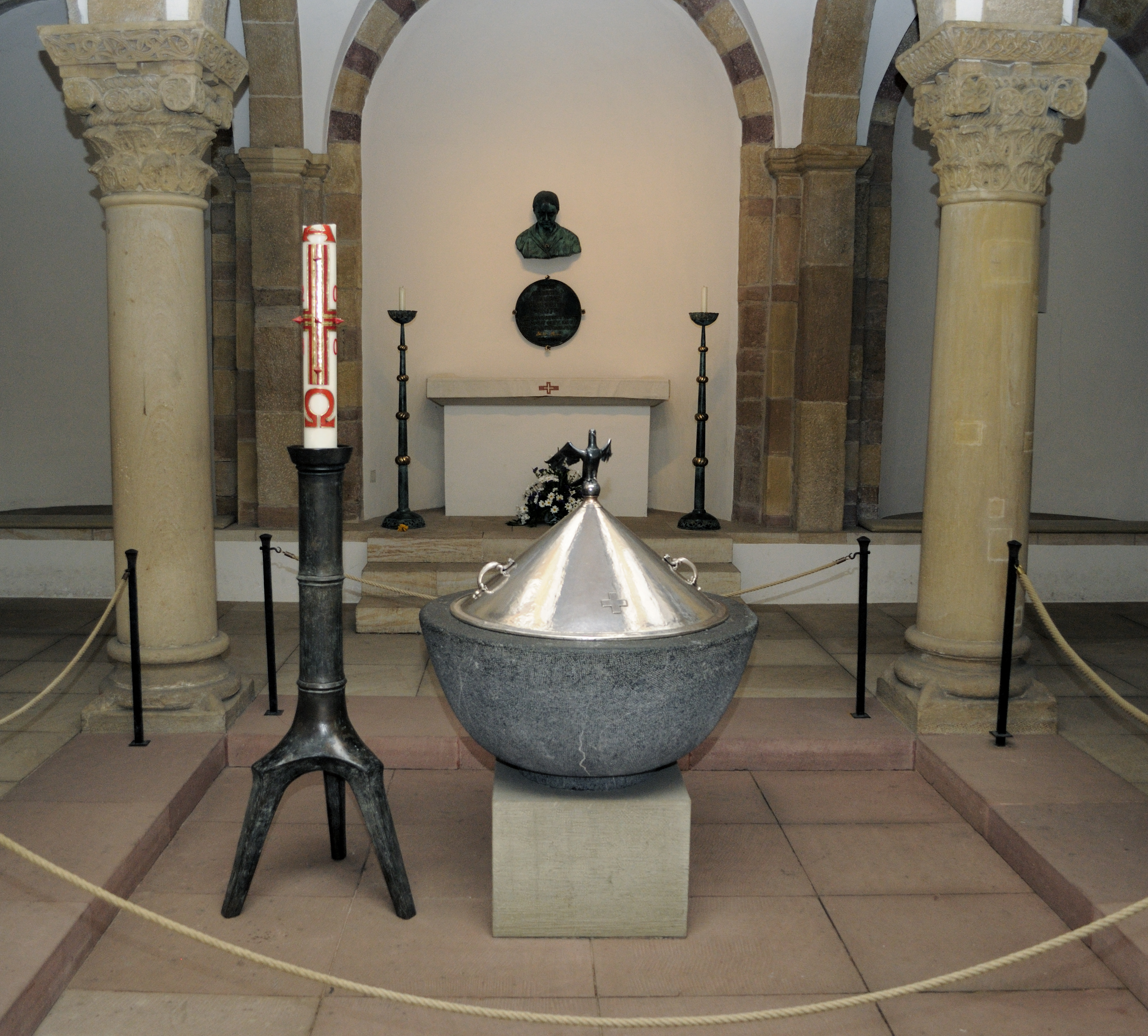 Picture taken in Speyer. Interior of the Speyer Cathedral.